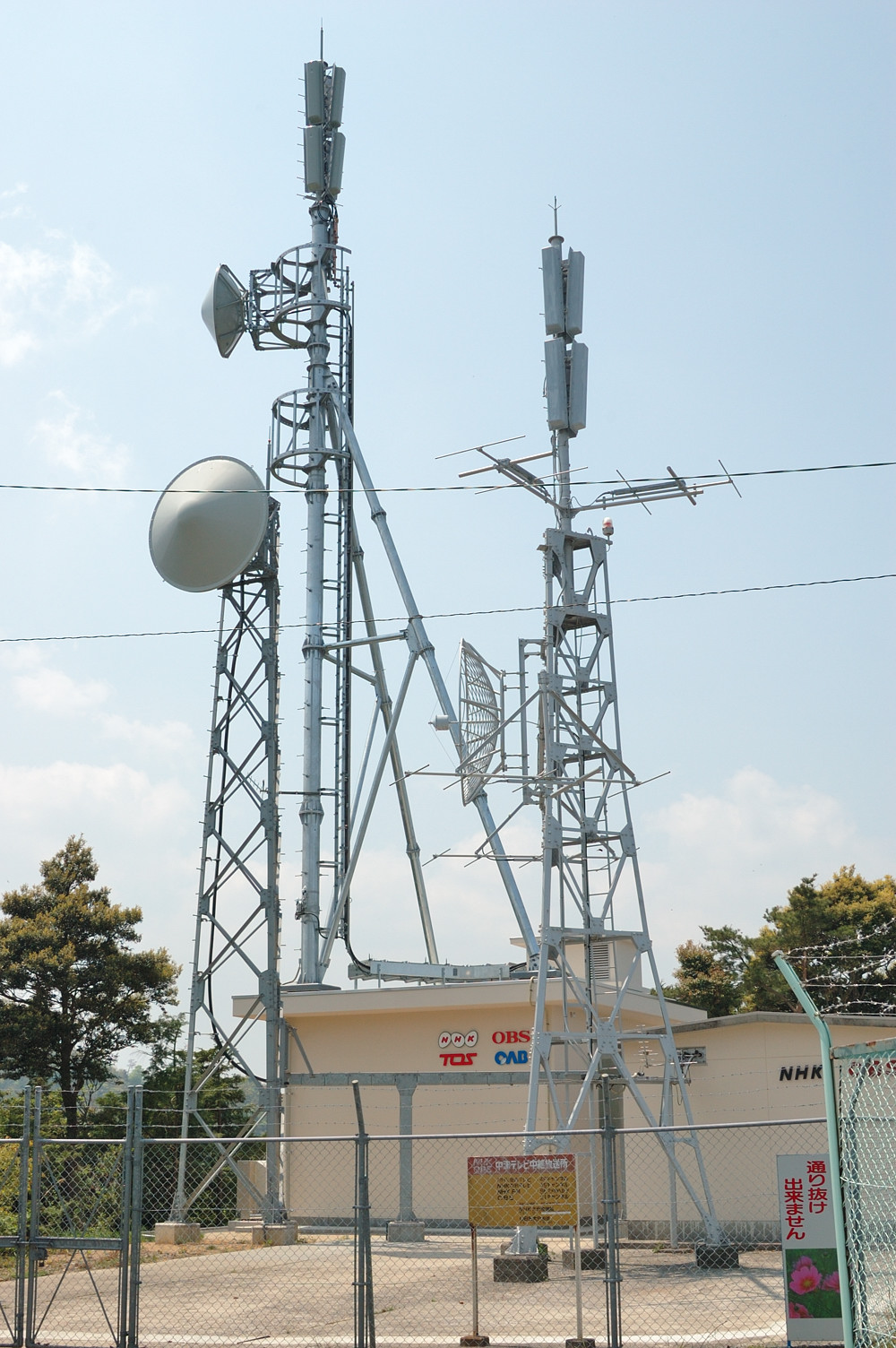 Oita nakatsu tv transposer(japan,oita 2008-04-29)